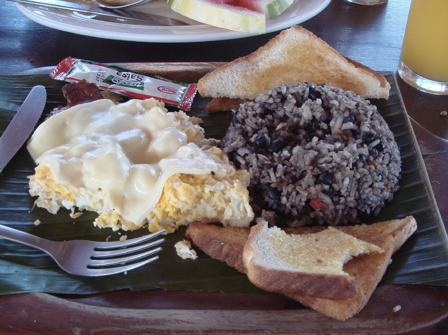 A Costa Rican breakfast with gallo pinto